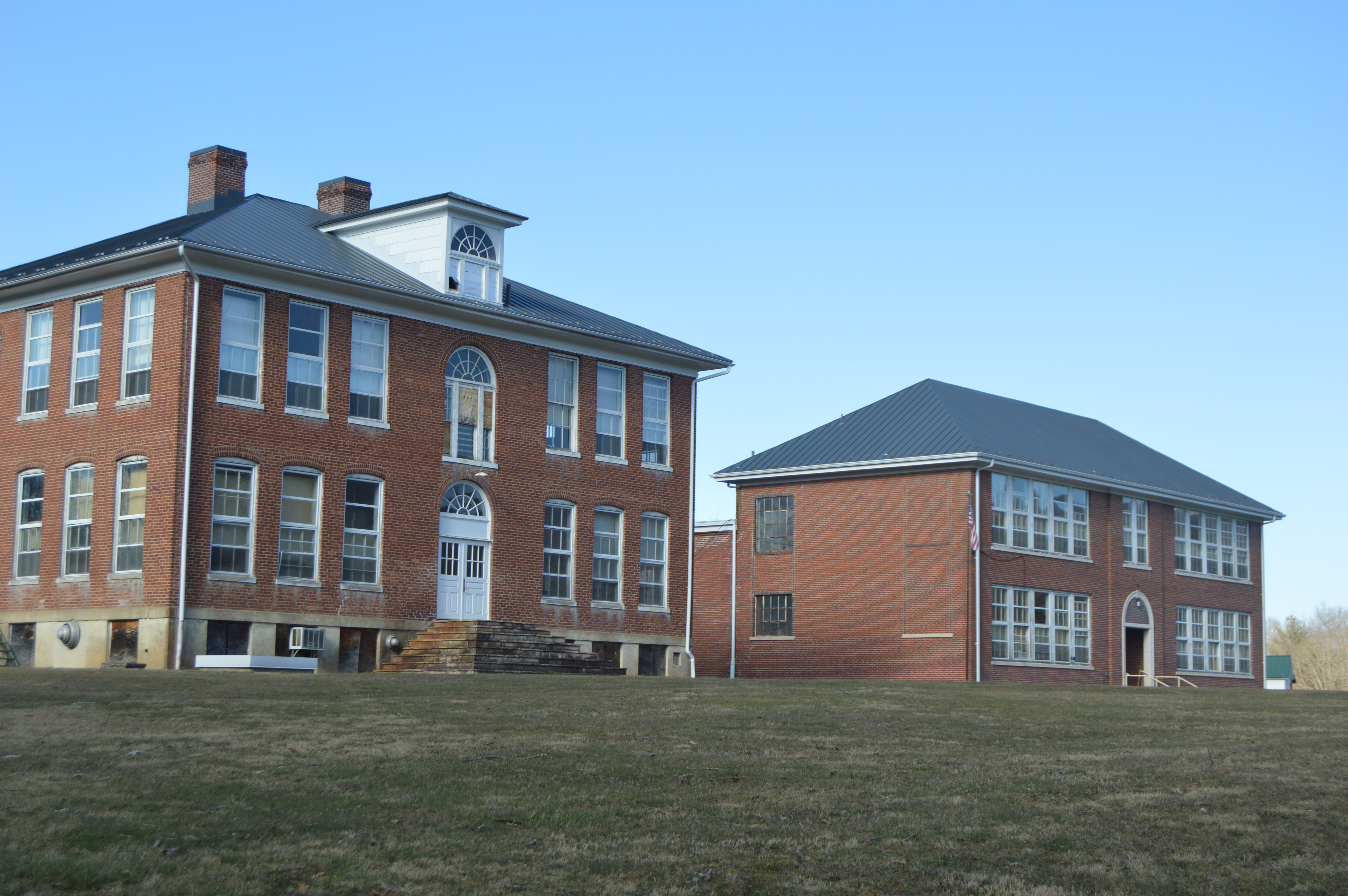 The two main buildings (built 1916, left, and 1933, right) in the Millboro School complex (formerly the local high school), located along Church and High Streets at Millboro in Bath County, Virginia, United States. The complex is listed on the National Register of Historic Places.